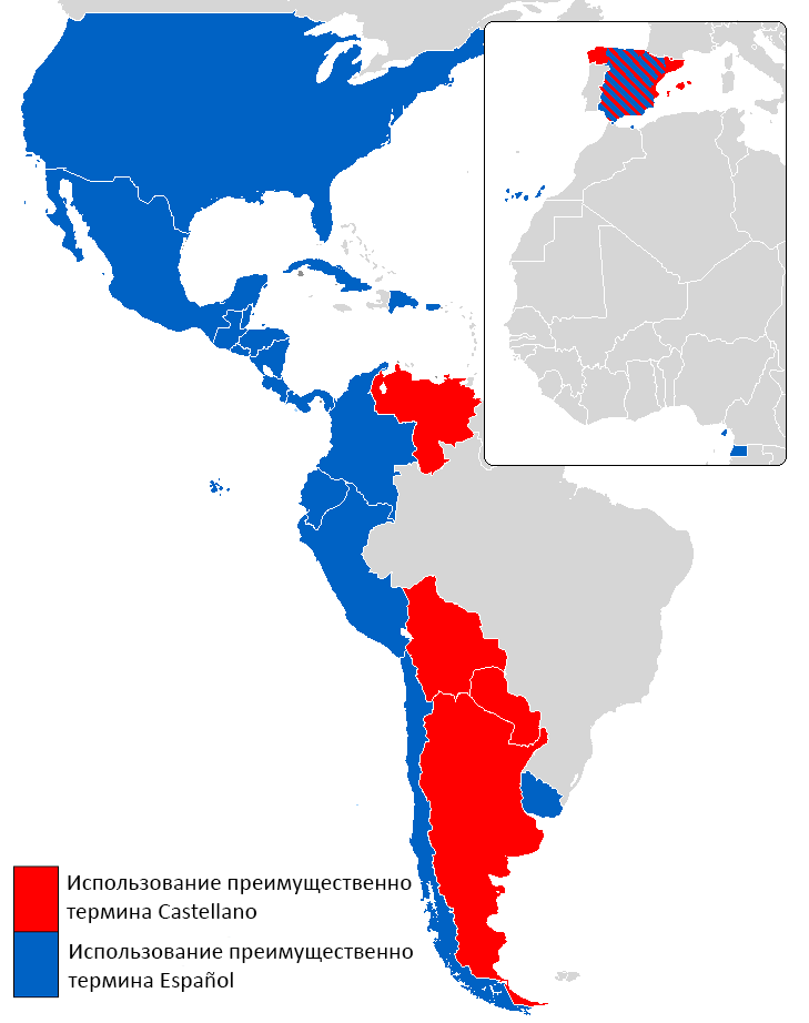 Most commonly used names given to the Spanish Language (the term for "Spanish" is in blue and "Castilian" is in red)